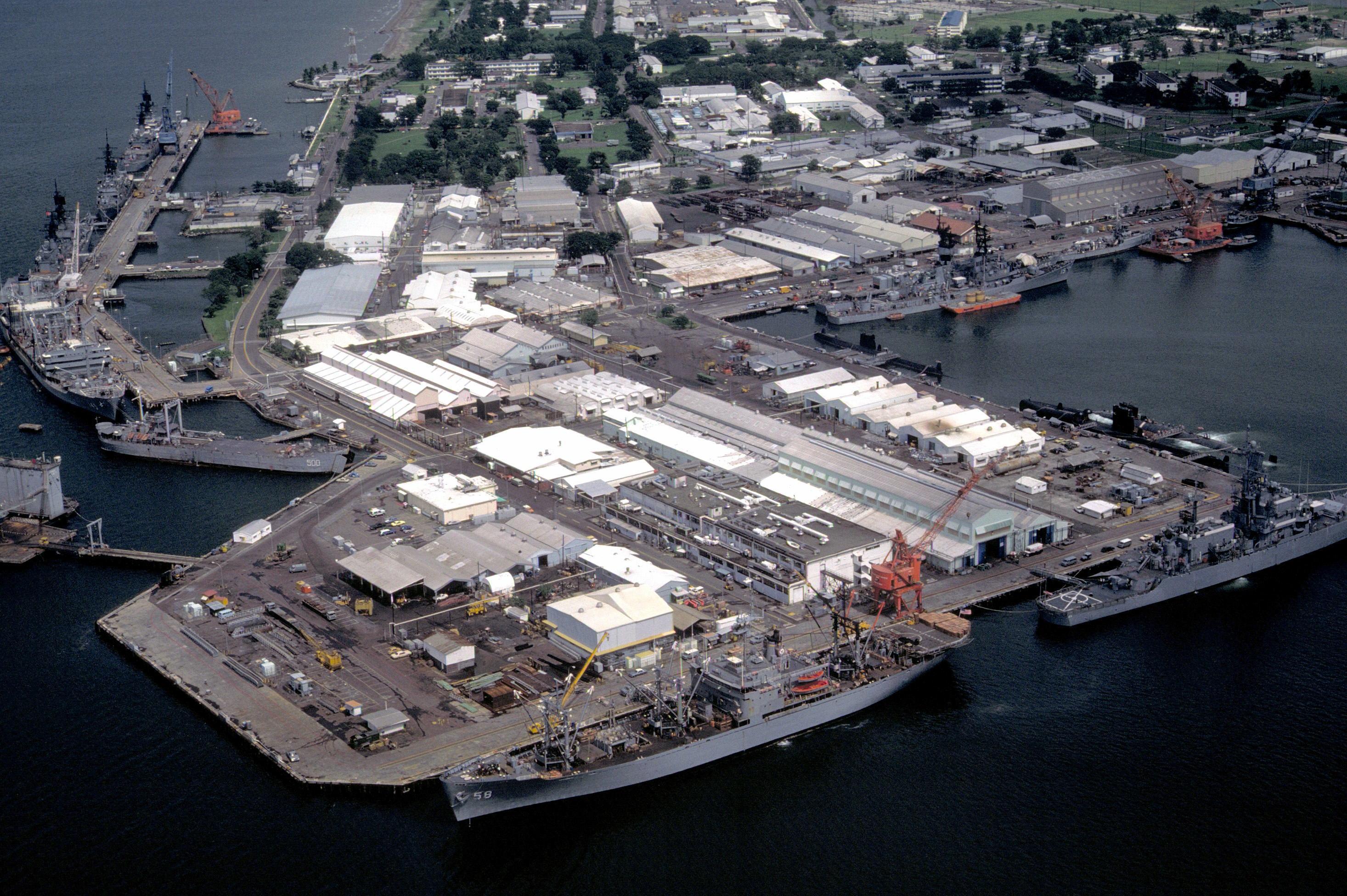 A view of the pier area of the U.S. Naval Station Subic Bay, Philippines, on 28 August 1981. The following ships are visible (right to left and front to back): the guided missile destroyer USS Berkeley (DDG-15); the frigate USS Stein (FF-1065); the guided missile cruiser USS Bainbridge (CGN-25); the stores ship USNS Rigel (T-AF-58); the Philippine Navy tank landing ship BRP Tarlac (LT-500), ex-USS LST-47; the fleet oiler USNS Hassayampa (T-AO-145); USS Sterett (CG-31); USS Henry B. Wilson (DDG-7); USS William H. Standley (CG-32).